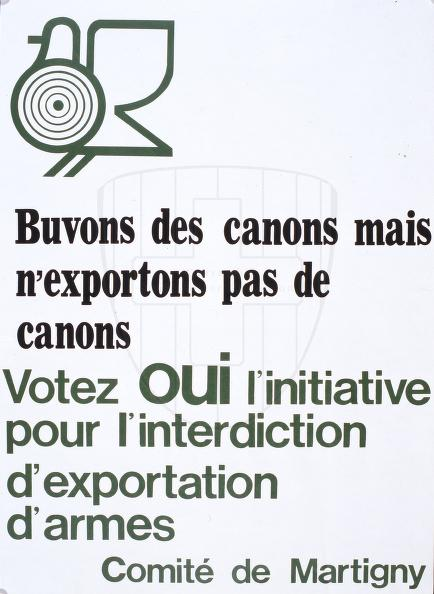 Swiss advertisement for votation regarding restriction on waepon's exports in 1972